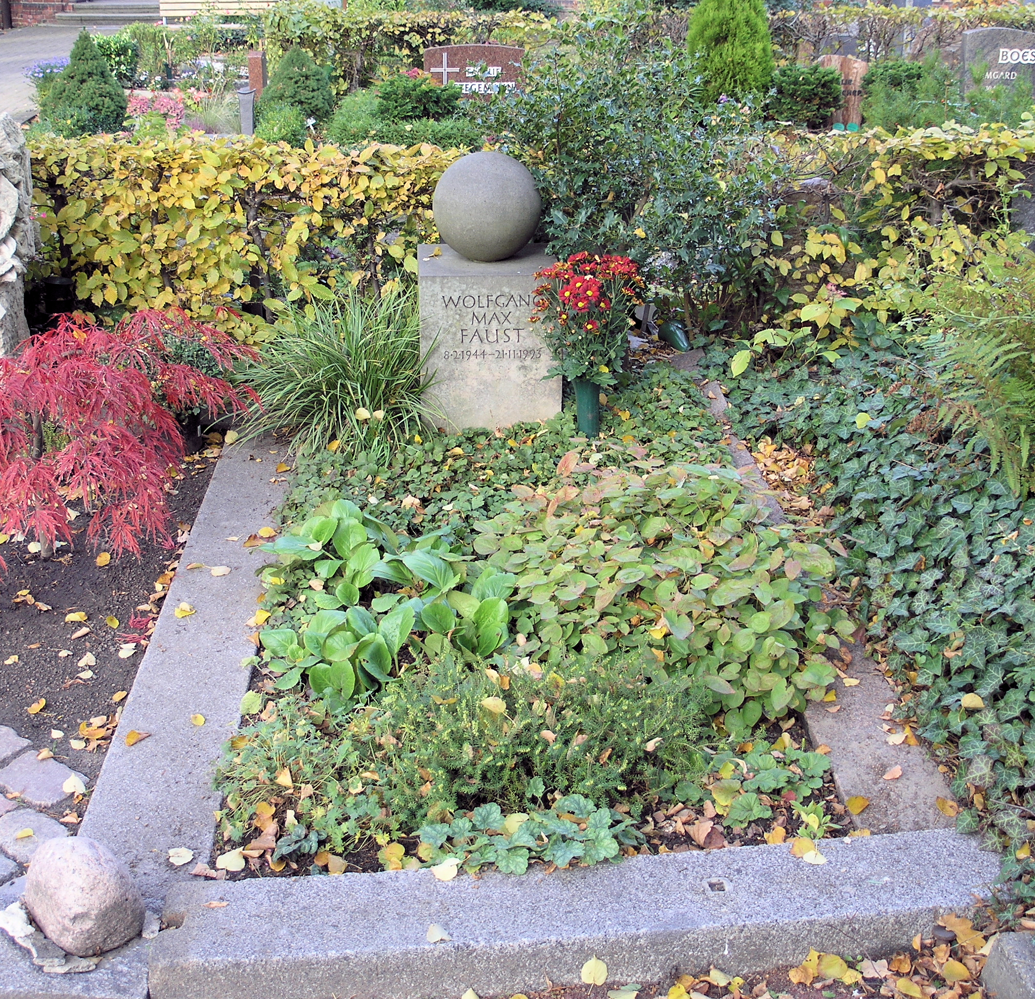 Graves, Wolfgang Max Faust, Stubenrauchstraße 43–45, Berlin-Friedenau, Germany Wolfgang Max Faust: Literaturwissenschaftler Koordinate:52°28′33″N 13°19′22″E / 52.47583°N 13.32278°E